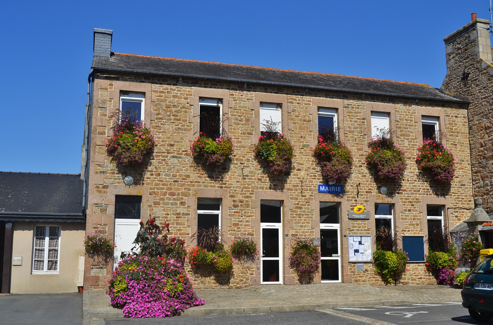 La Mairie